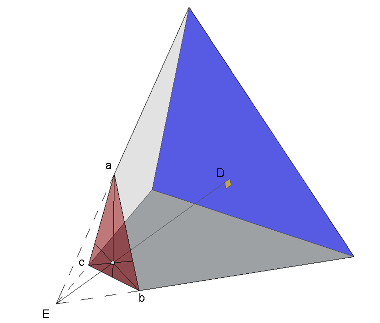 Cross Section in Tetrahedron